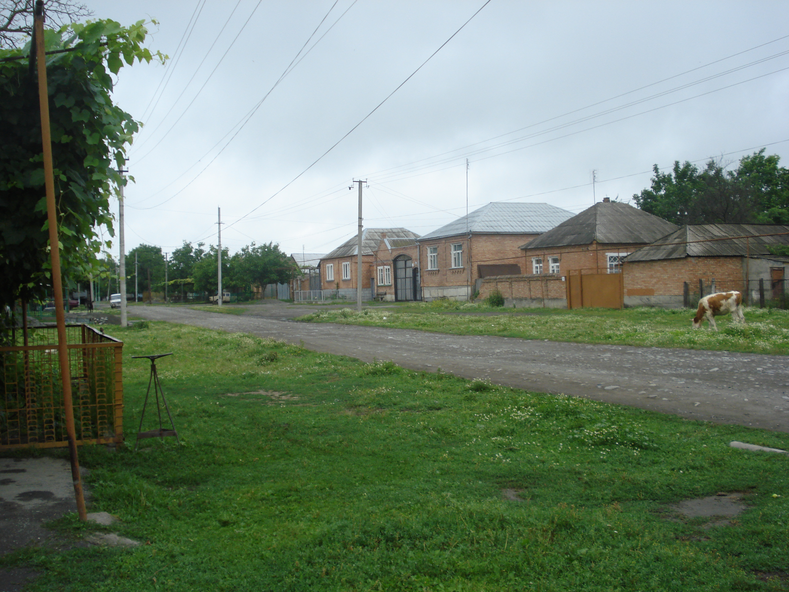 Street of Ossetian village Nog Batako